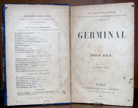 This is image from old book GERMINAL (original printed 1885)by EMILE ZOLA that has been more than 70 years old